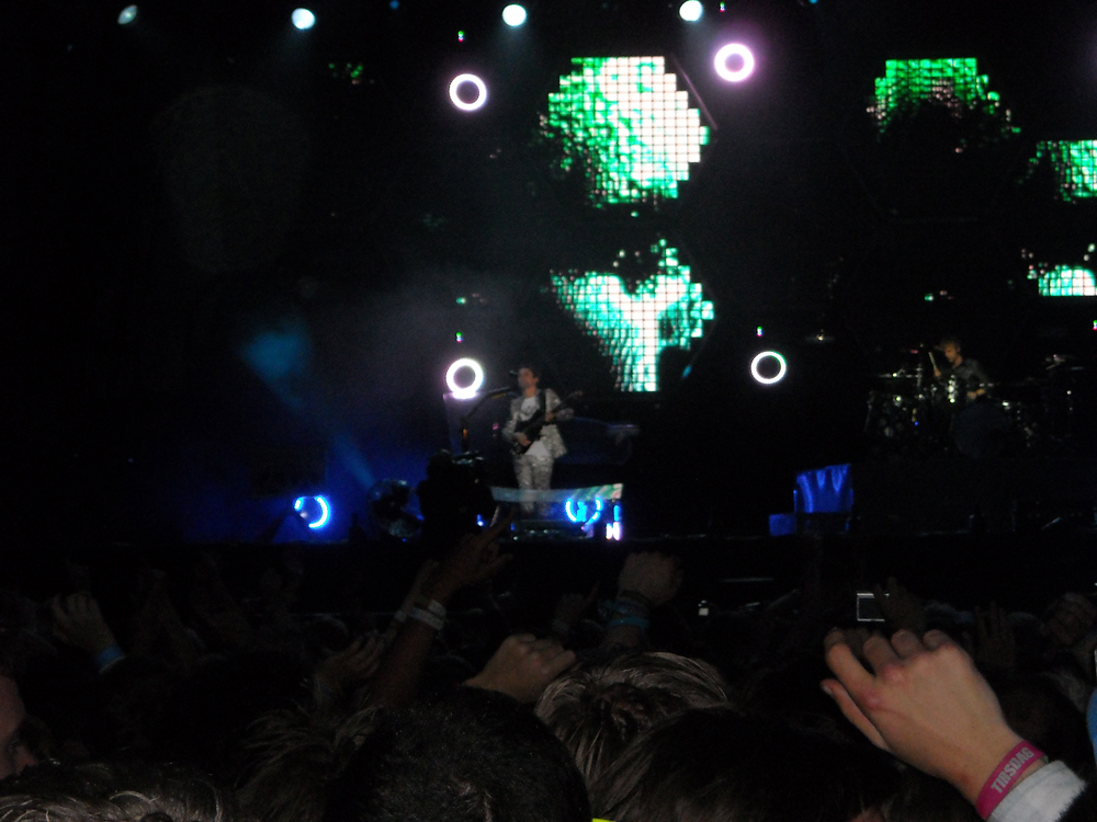 Hove festival 2010 - Muse